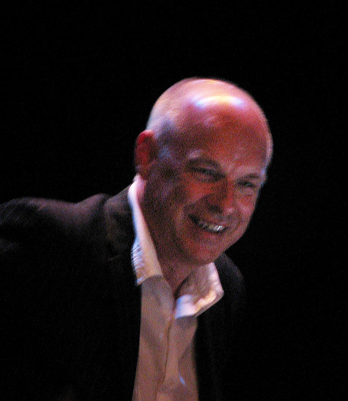 Photograph of Brian Eno at a 2006 Long Now Foundation discussion with Will Wright